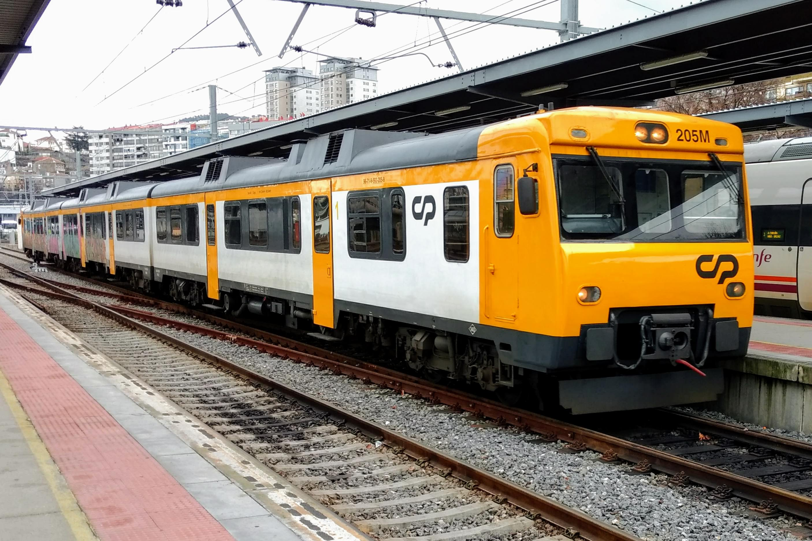 Celta train of RENFE and Comboios de Portugal in the train station of Vigo - Urzaiz